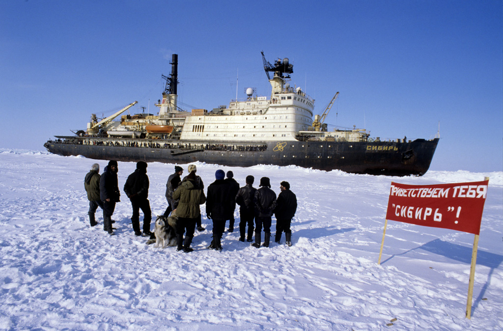 “Explorers at North Pole-27 Station meet icebreaker "Sibir"”. Explorers at the North Pole-27 Station meeting the icebreaker "Sibir." A days-long high latitude expedition on the nuclear powered icebreaker "Sibir."